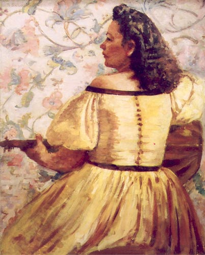 a woman playing 'Oud